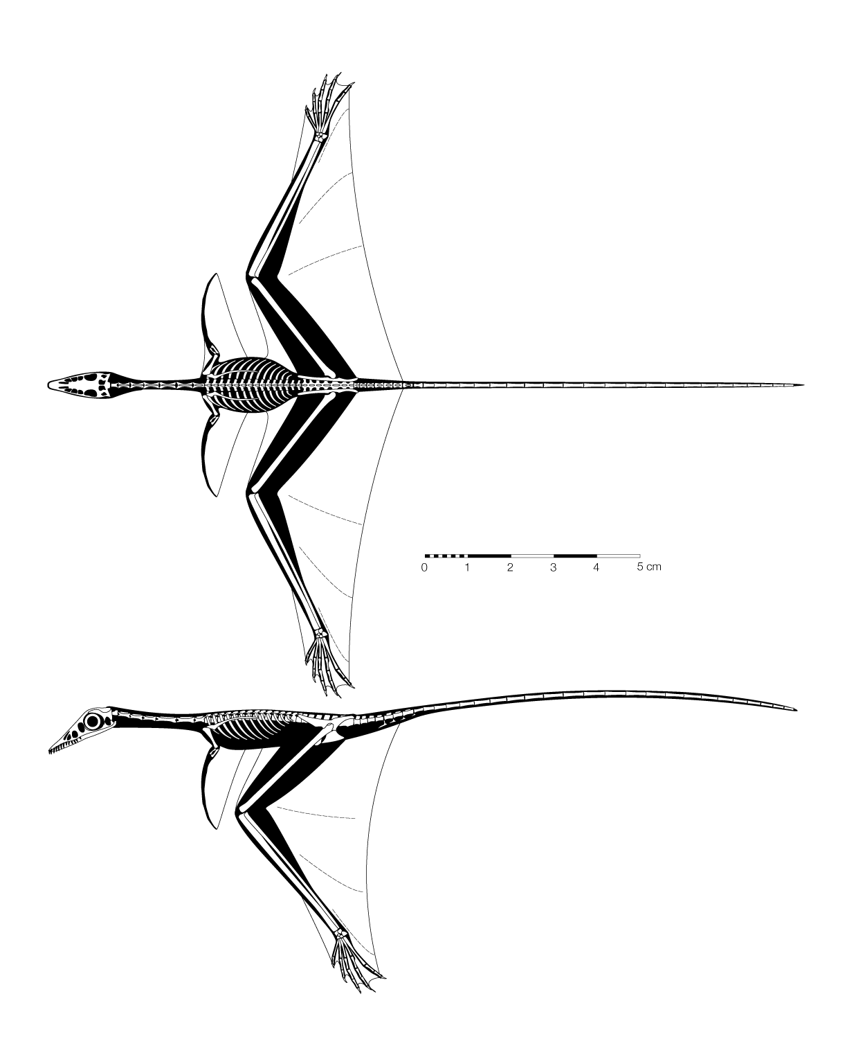 Sharovipteryx mirabilis by John Conway (en